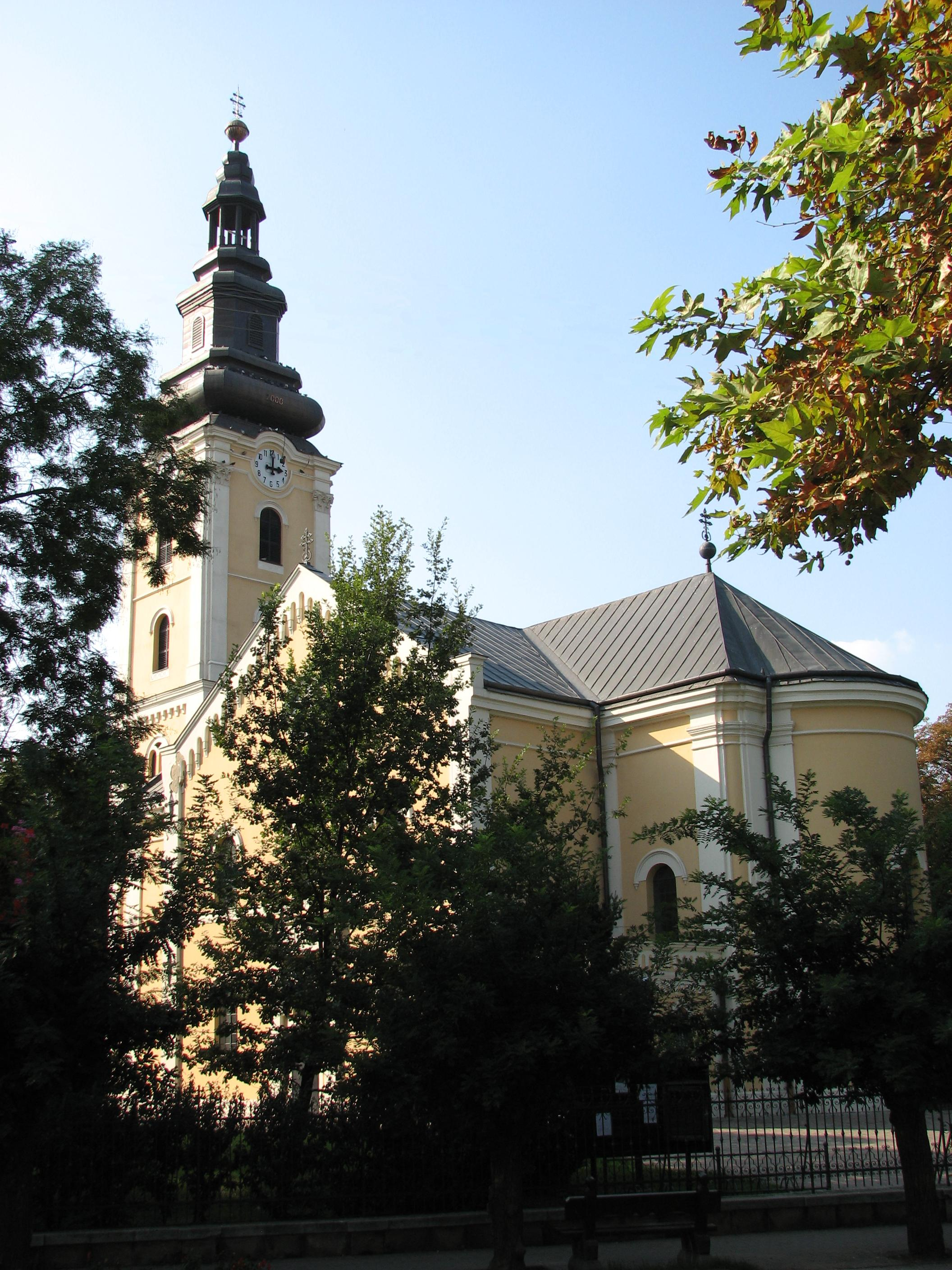 The view of the Greek Catholic Cathedral of Hajdúdorog, Hungary.